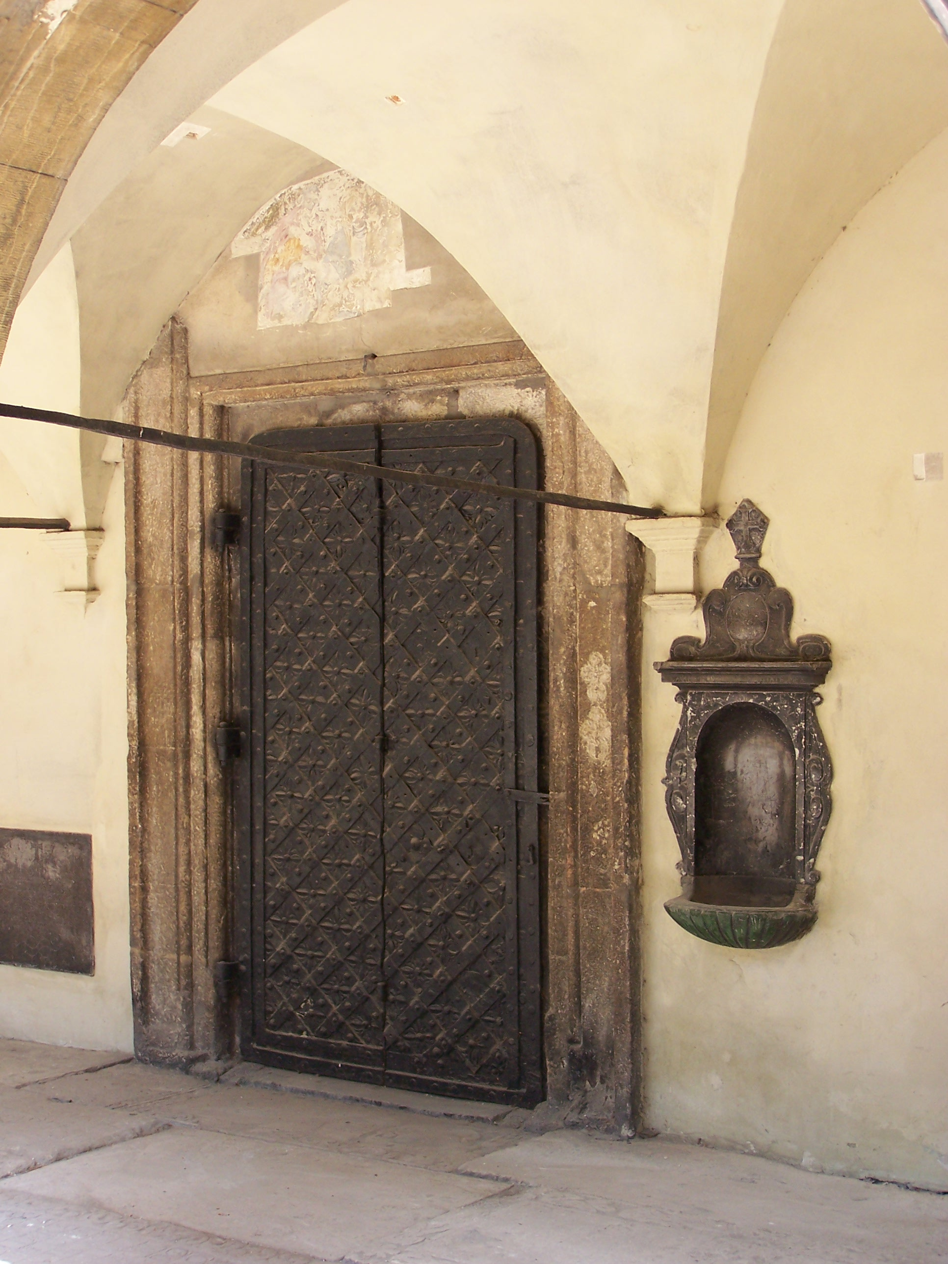 Armenian Cathedral in Lviv.